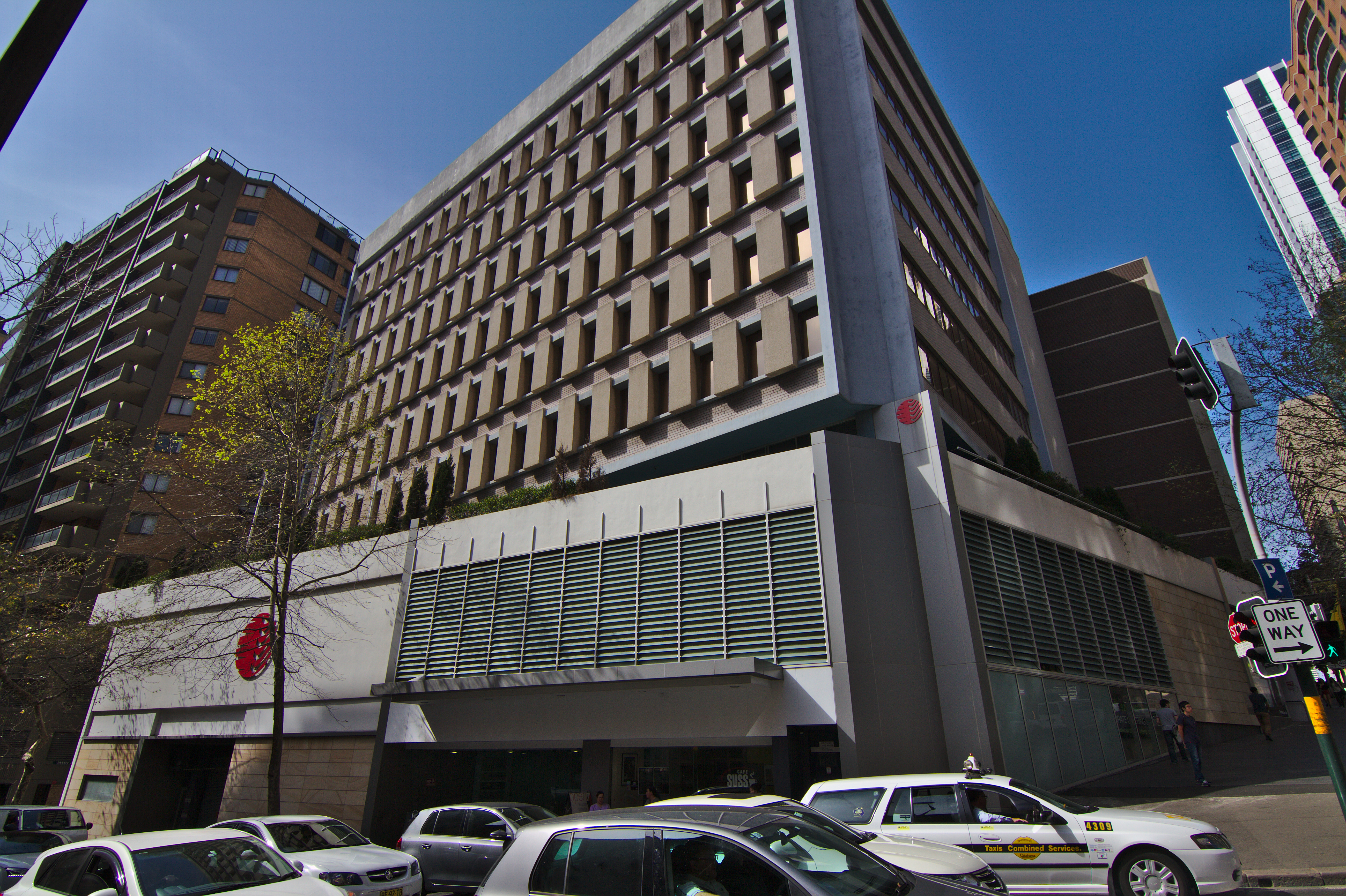 SAI Global headquarters at 286 Sussex St, Sydney